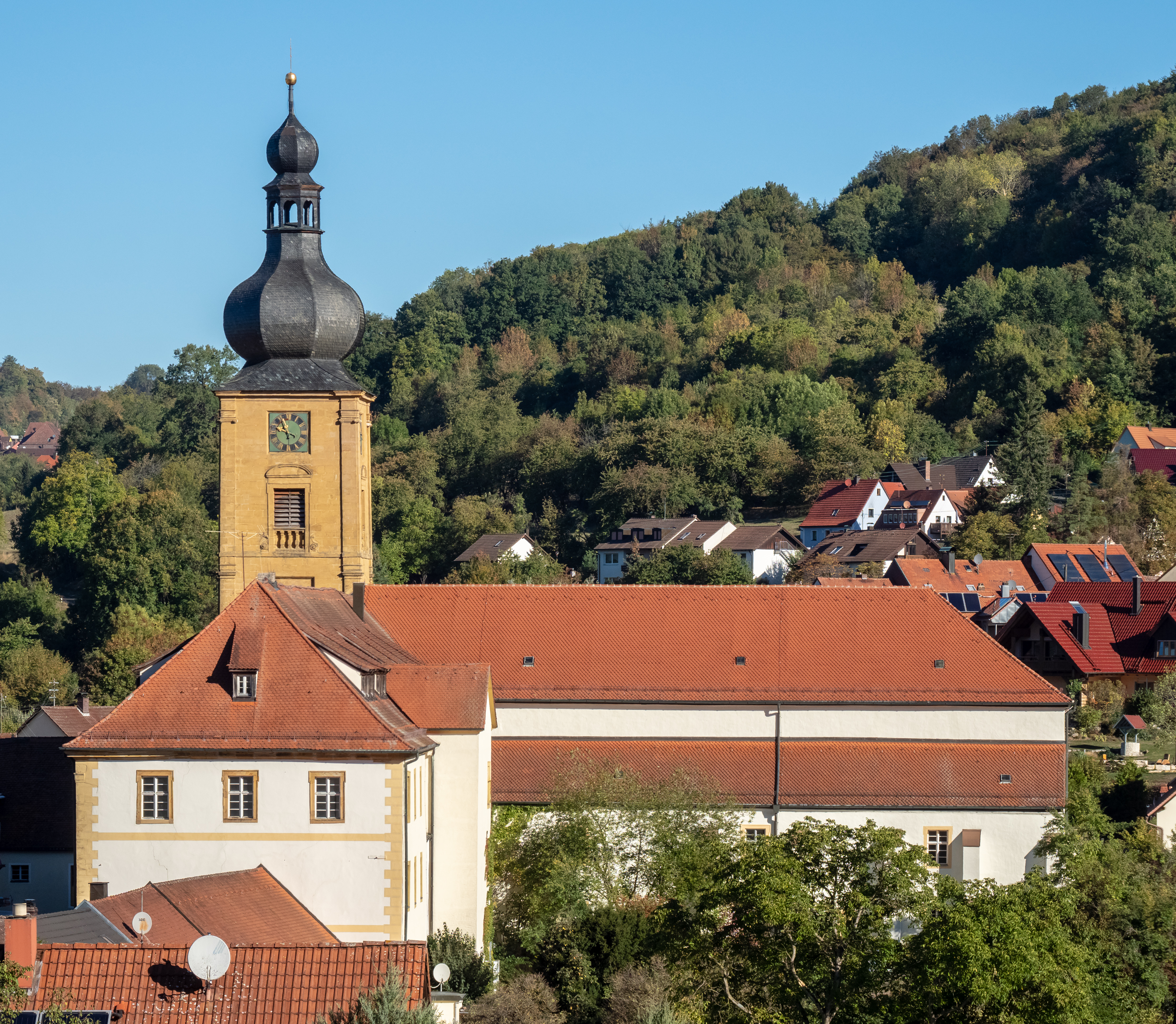 Monastery Weißenohe